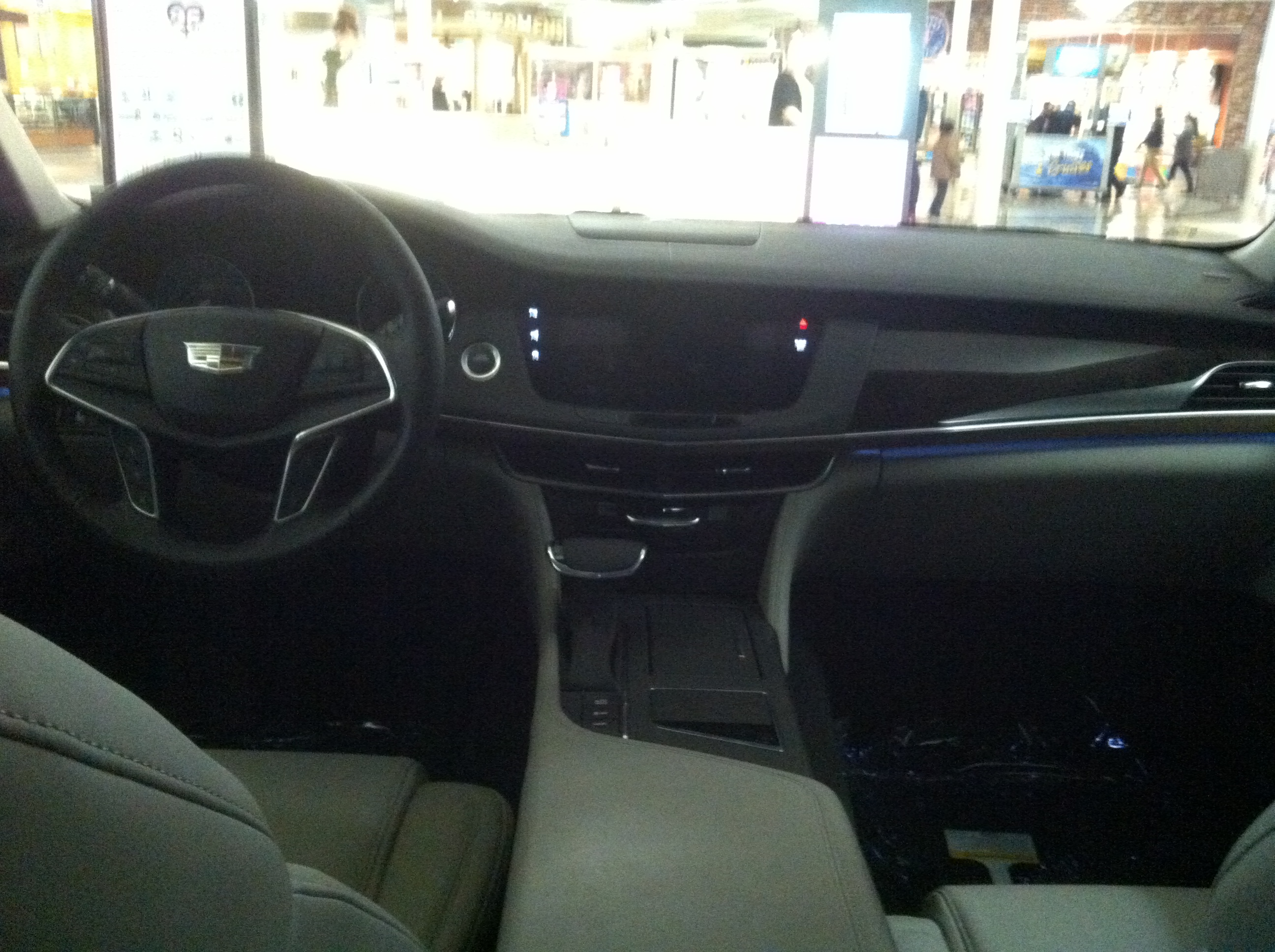 Cadillac CT6 2017 Interior.